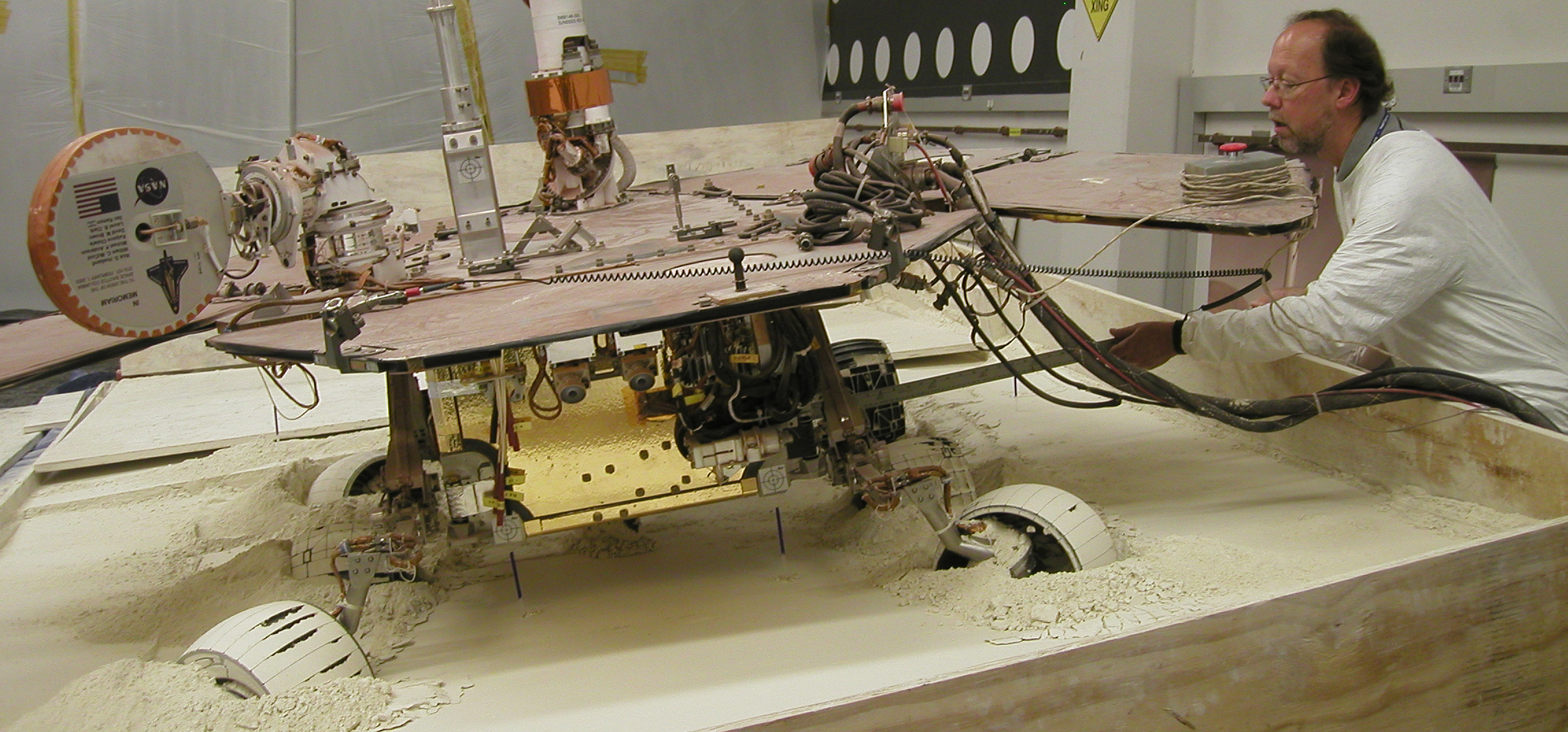 In this view from behind a test rover at NASA's Jet Propulsion Laboratory, Pasadena, Calif., the rear wheels of the rover are turned toward the left, and the left-front wheel is turned toward the the right. Bruce Banerdt, project scientist for Spirit and Opportunity, measures the rover's position before the rover receives commands to drive a forward right arc. The experiment was designed to assess whether this maneuver could pivot the rover around the immobile right-front wheel, since the right-front wheel on NASA's rover Spirit has been inoperable for more than three years. This work on July 15, 2009, was part of a series of tests at JPL designed to determine the best way to get Spirit out of a Martian patch of soft soil called "Troy," where Spirit's wheels have dug in. The test setup, in a box that team members are calling the dustbin, simulates the situation at Troy. The box holds about 2.7 tons of a powdery mixture of diatomaceous earth and fire clay. This material has physical properties similar to the soil at Troy. The top surface is sloped at 10 degrees.